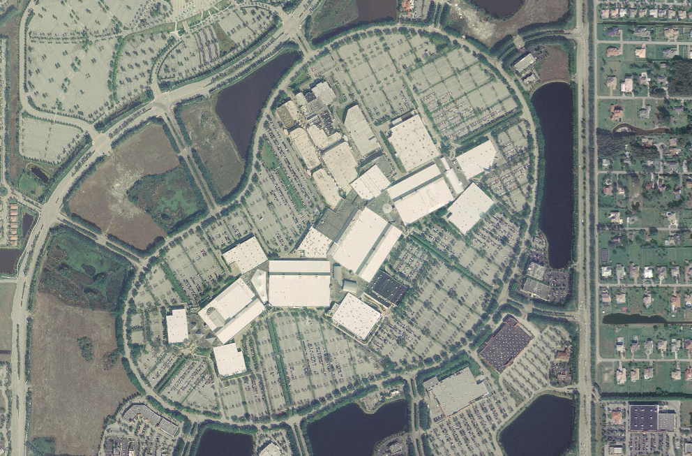 Sawgrass Mills satellite view, nasa world wind 1.3.5